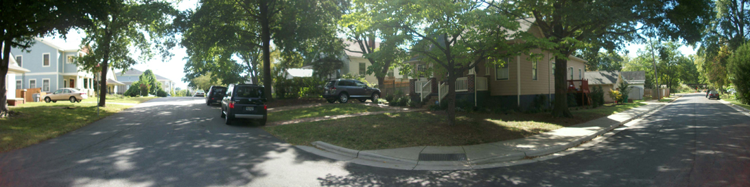 North Charlotte's Neighborhood in Mecklenburg Mill Village Houses